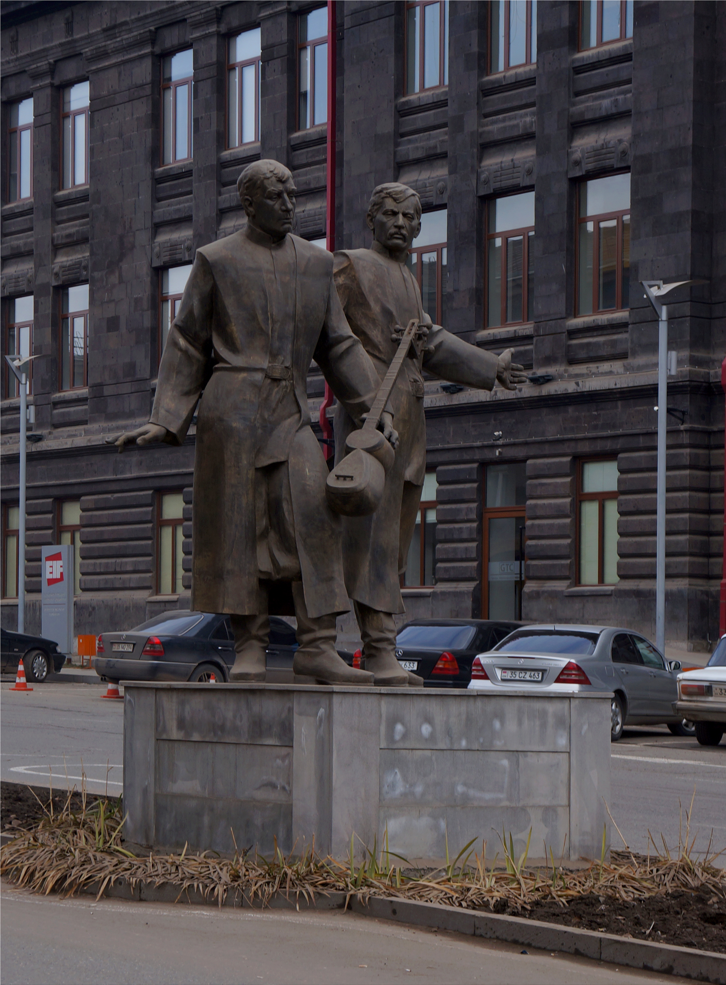 Sheram and Jivani statues (Armenian gusan, folk musician) in Gyumri, Armenia